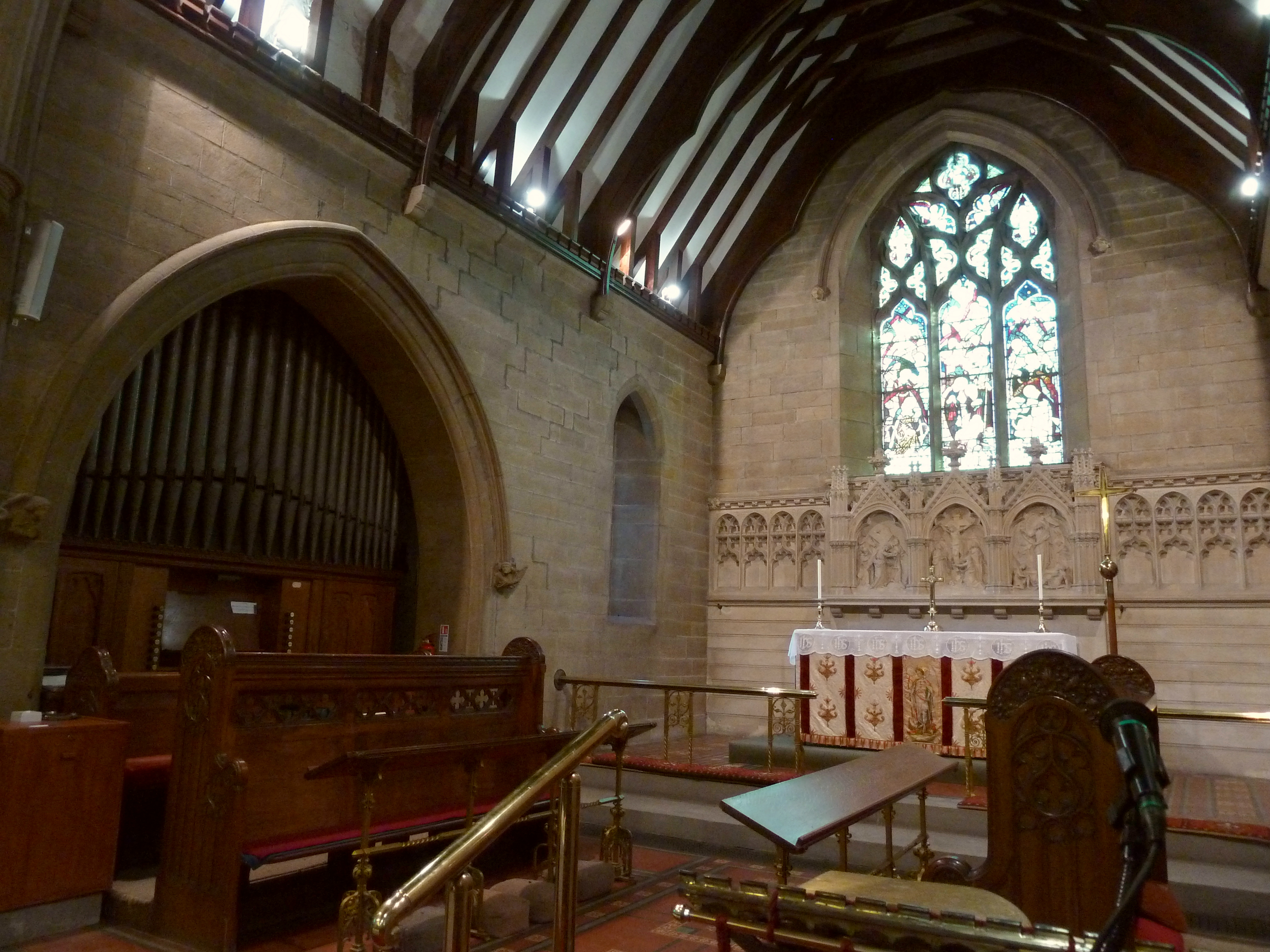 St Michael and All Angels parish church, Beckwithshaw, North Yorkshire, England. Chancel, showing south and east walls